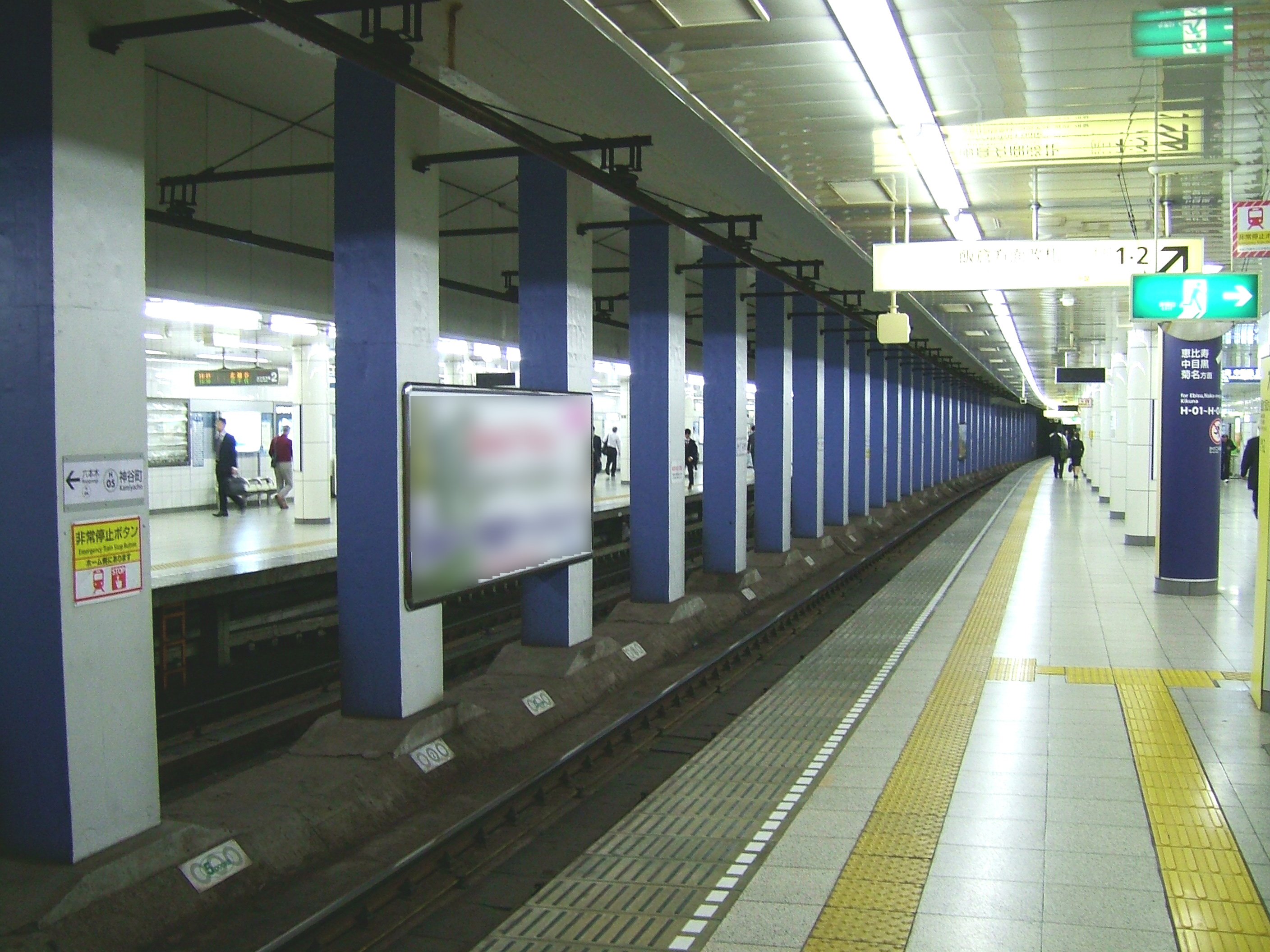 Kamiyacho Station platform (Tokyo Metro Hibiya Line)